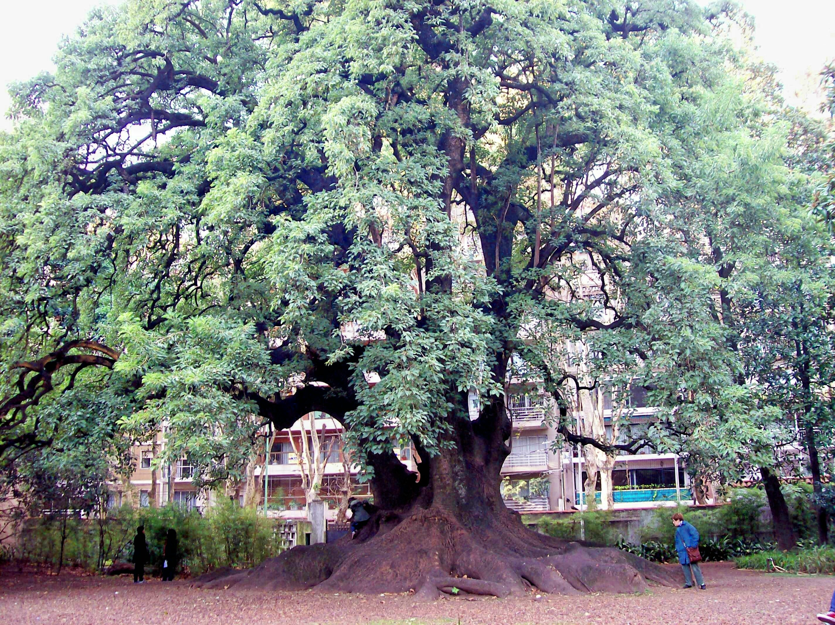 Ombú (female foot) planted between 1916 and 1930 (age in the image: between 81 and 95 years) by the eldest son of Enrique Larreta (Enrique Larreta (h)). Enrique Larreta Spanish Art Museum. Buenos Aires, Argentina.